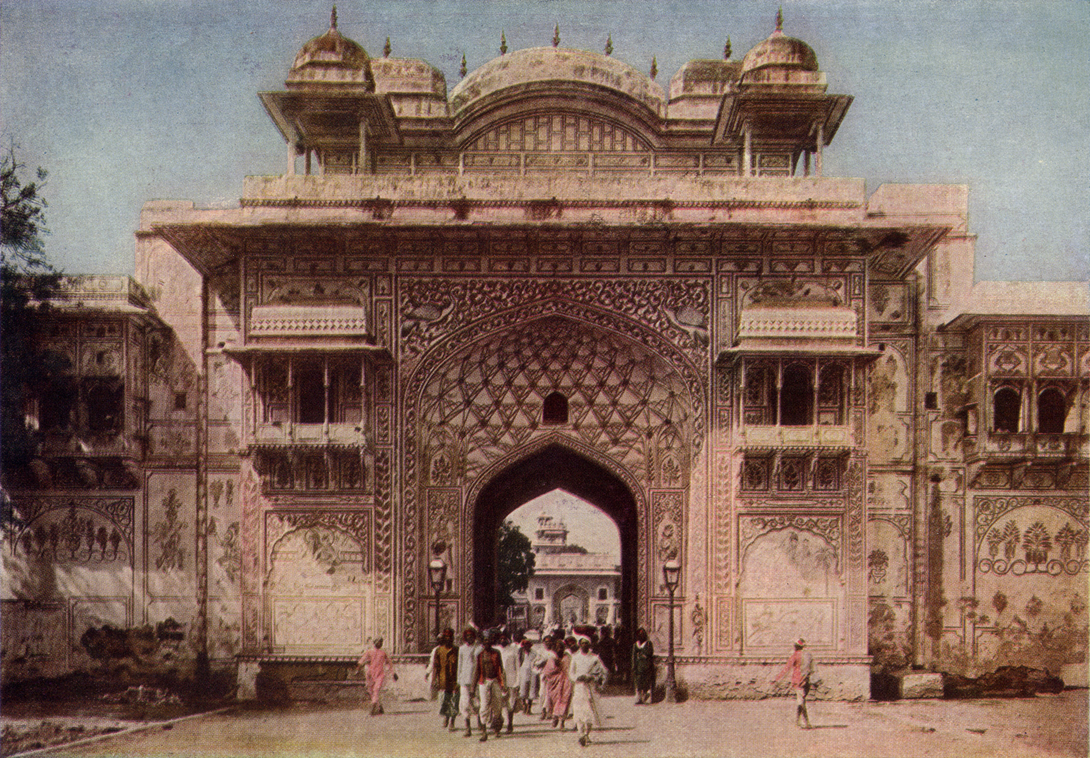 THE GATE OF JAIPUR, INDIA. Built of pink stucco and surrounded by a great wall with many towers, this city is the chief financial center of the state of Raj-putana and a commercial emporium of no mean proportions. Paved streets, some a hundred feet wide, divide the city into six equal sections. Founded in 1728 by the great Maharajah Jai Singh II, it was named for him, and its chief attraction is his magnificent palace in the center of the city. It is the only city in India laid out in rectangular blocks.